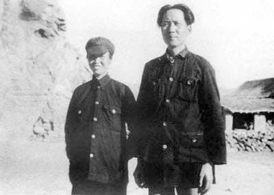 1936 Mao and third wife He Zizhen. 毛泽东和贺子珍1936年在陕北保安县合影。